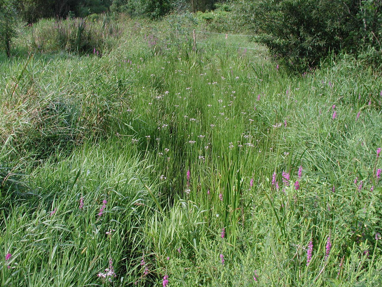 Butomus umbellatus L. - Flowering rush - Infestation - United States